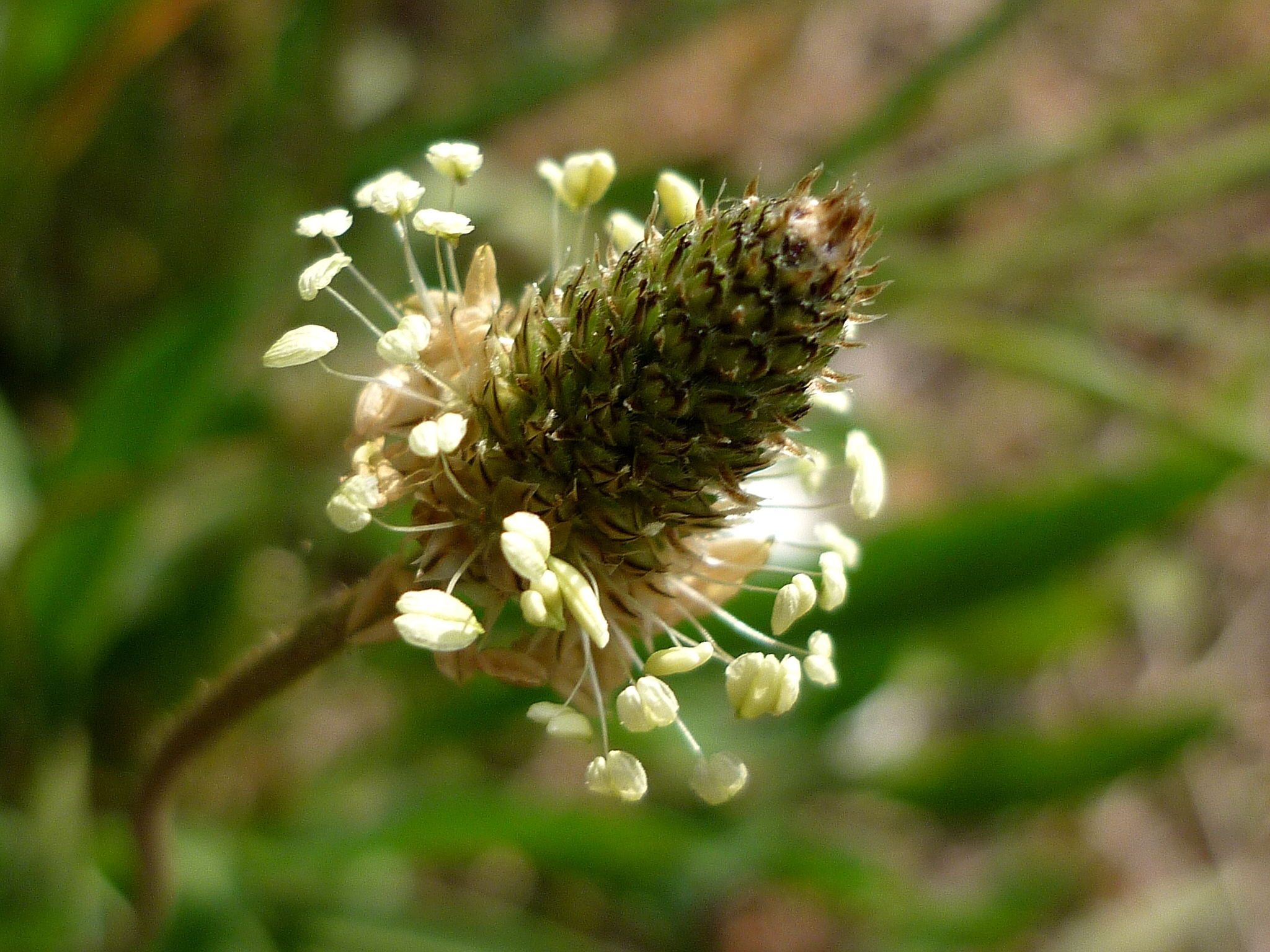 Plantago lanceolata. In Torà (Segarra-Catalunya). To 590 m. altitude